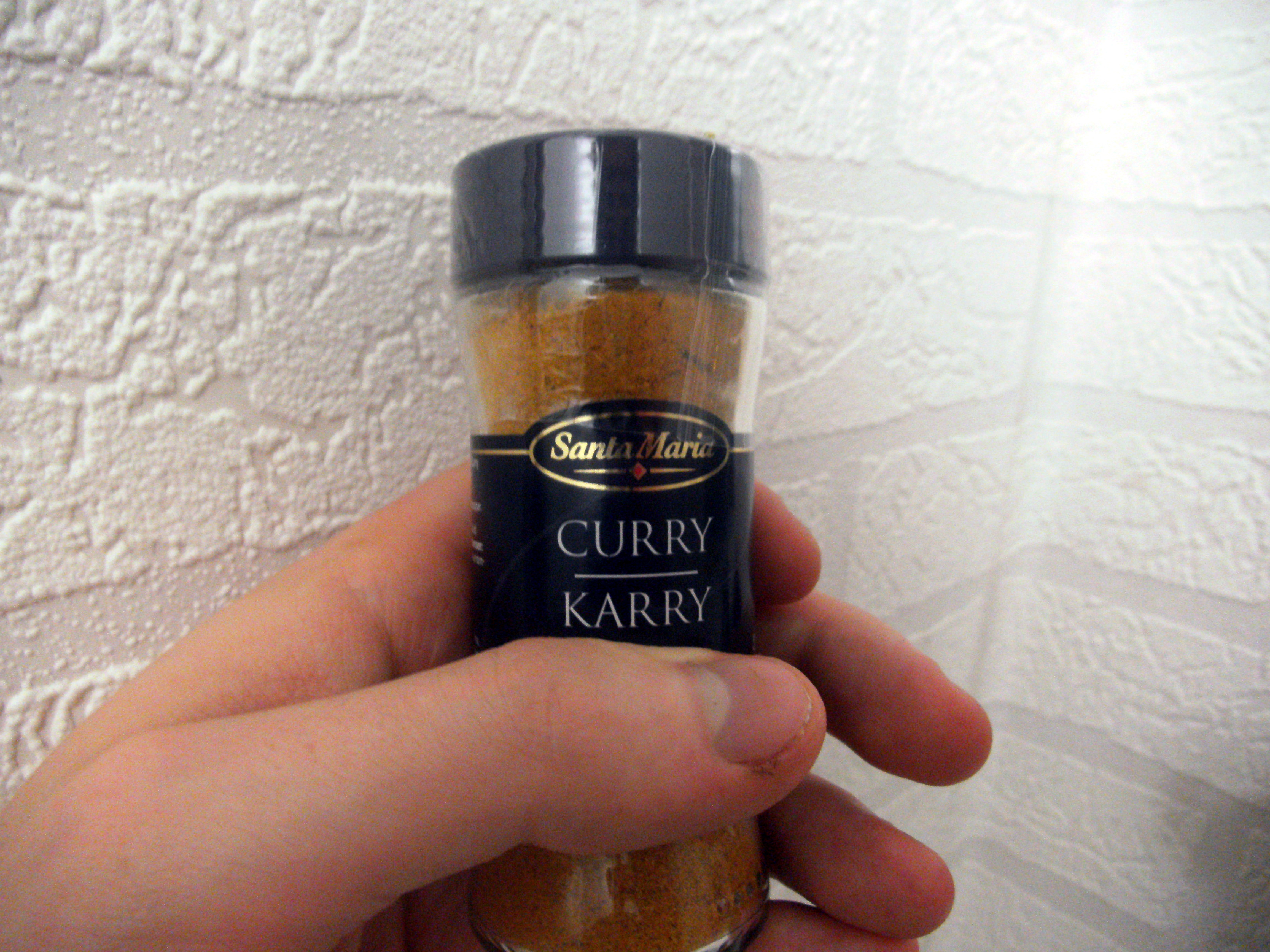 Santa Maria Curry, purchased in Sweden